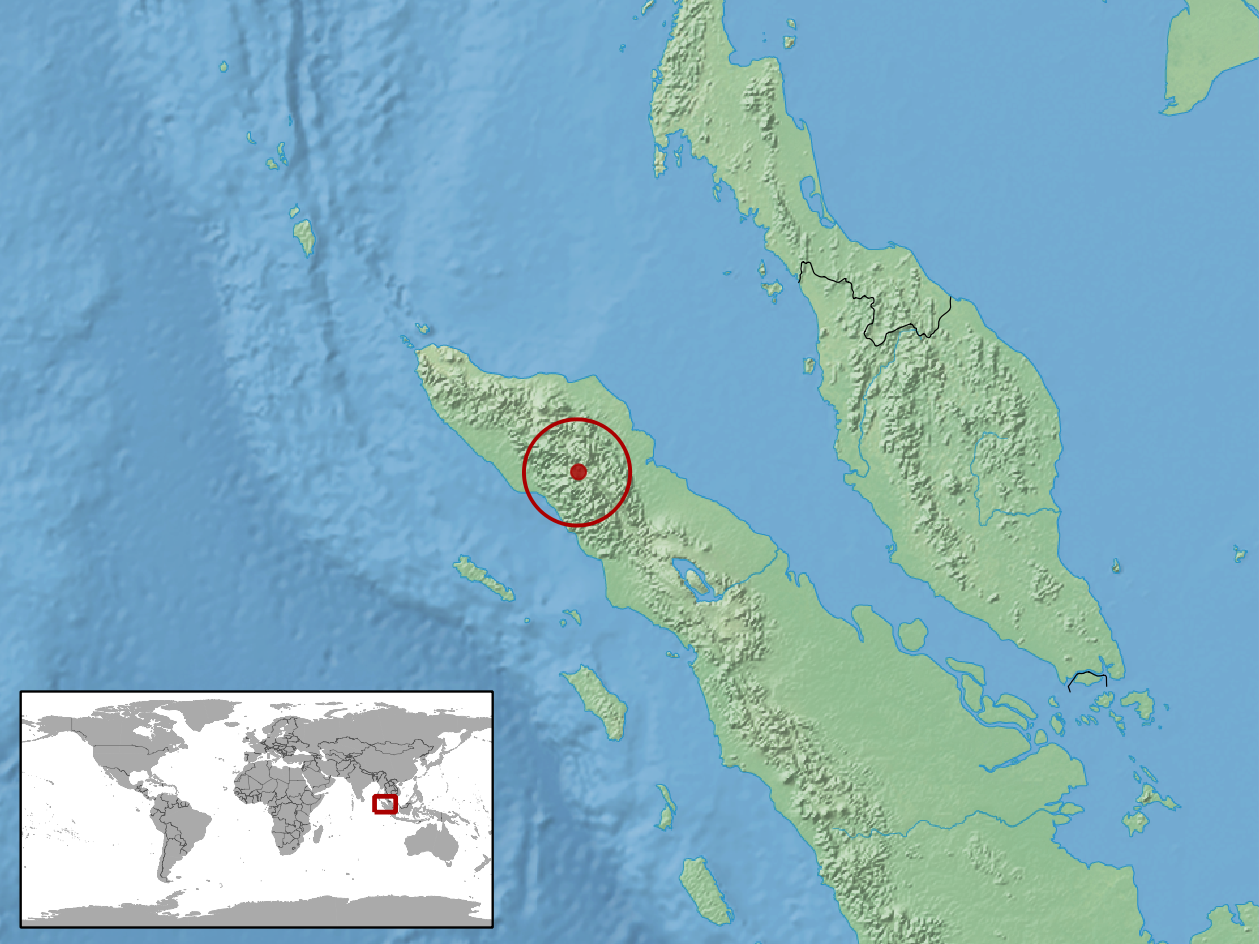 geographic distribution of Calamaria ulmeri (Native: Indonesia (Sumatera))